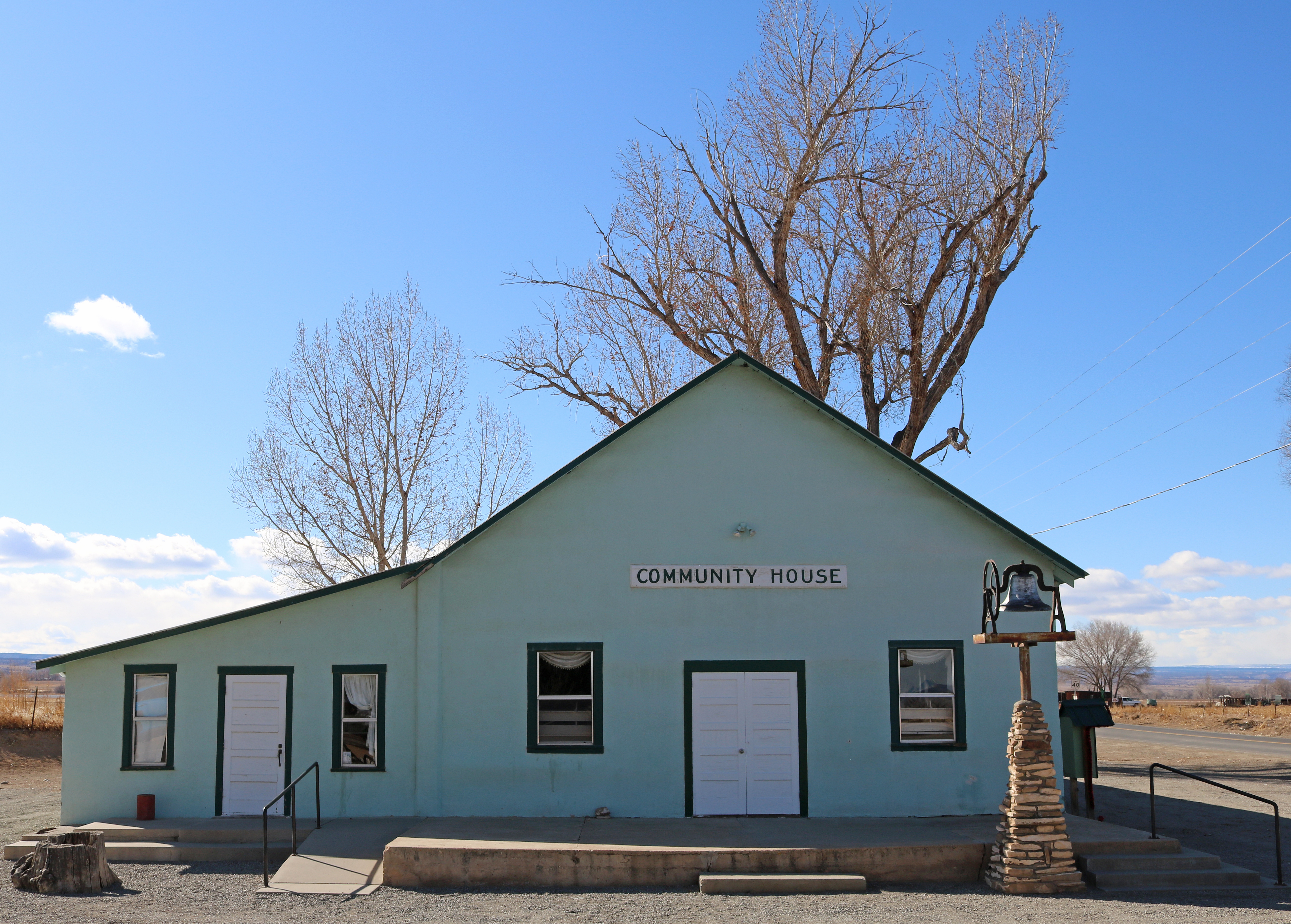 The community house at Pea Green Corner in Montrose County, Colorado. It is also called the Pea Green Community Hall, and its address is 3015 Highway 348, Olathe, Colorado.